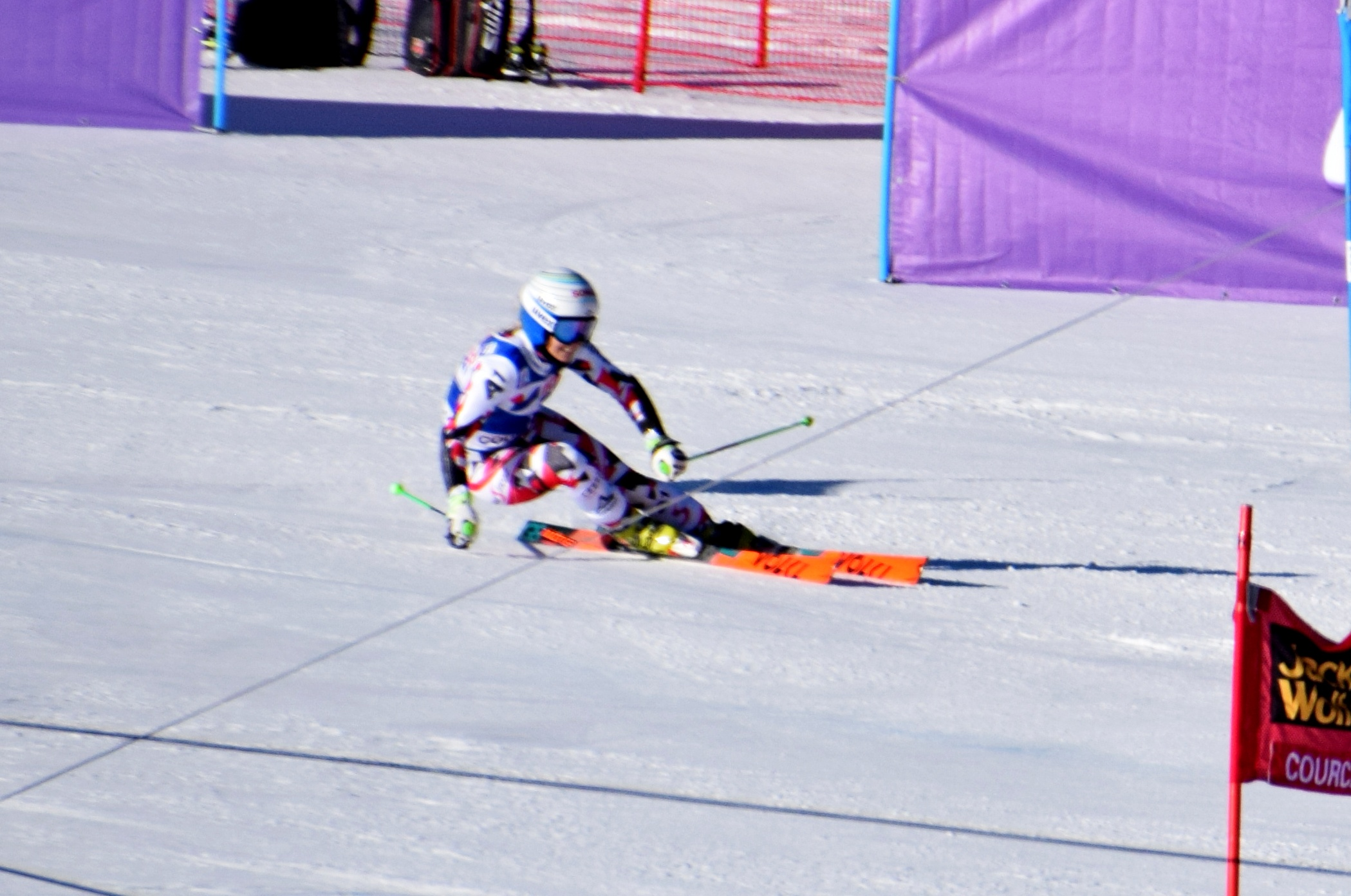 Eva-Maria Brem, 1 run of Giant Slalom, Alpine Skiing World Cup of Women in Courchevel, 20 december 2015